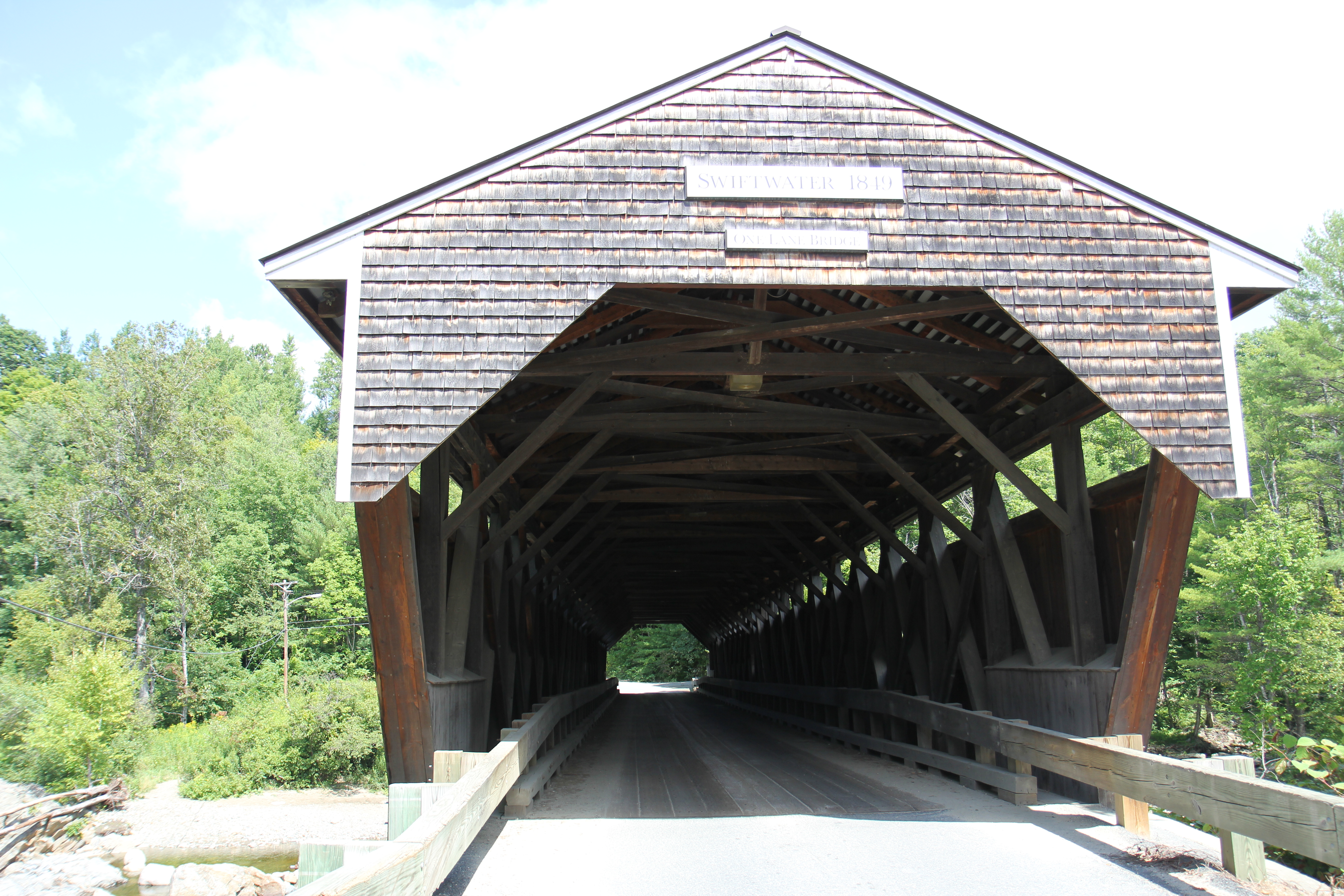 Looking into the Swiftwater Covered Bridge.